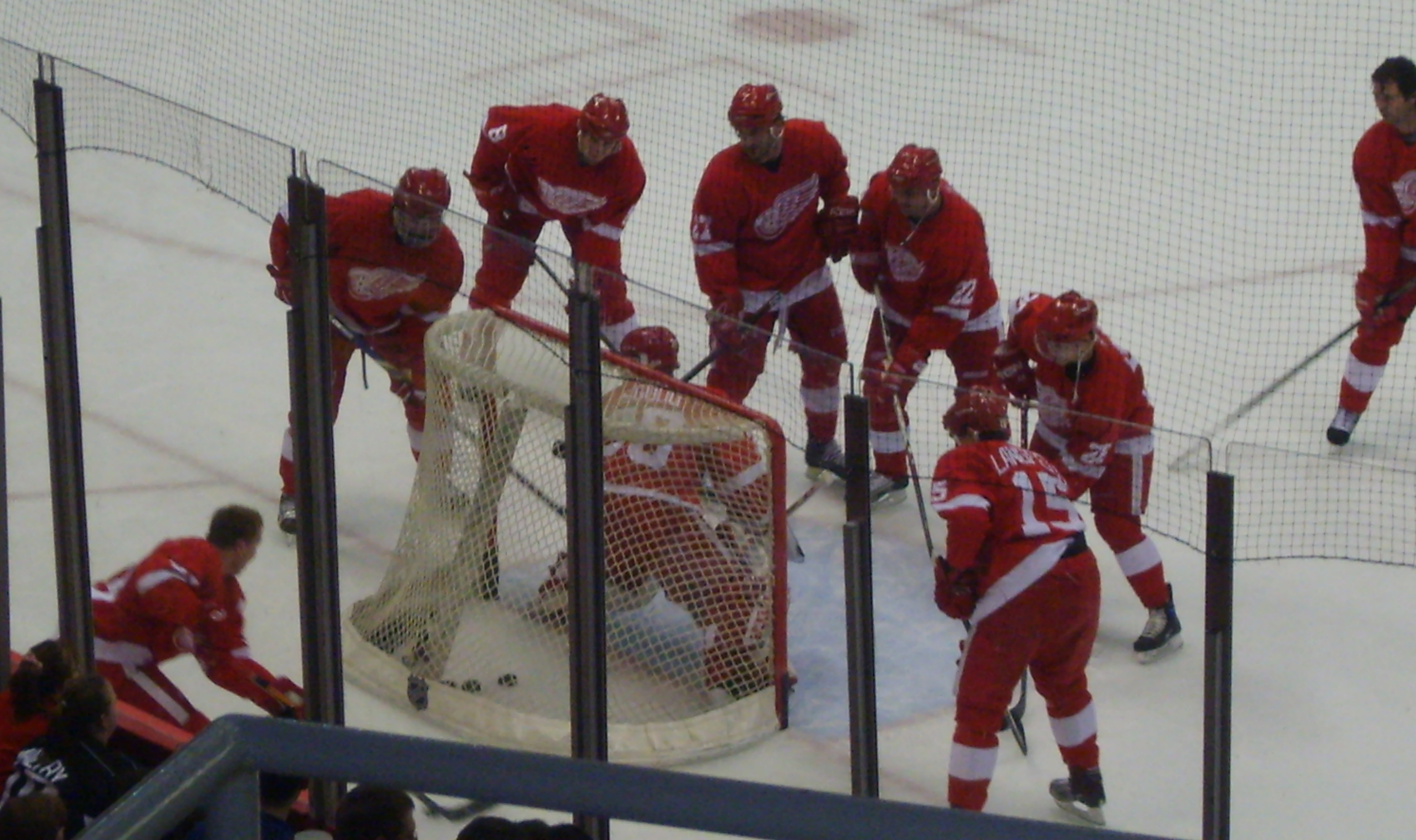 This photo was taken by me, User:Schmackity before a game between the Detroit Red Wings and the Los Angeles Kings on March 9, 2007 at Joe Louis Arena.